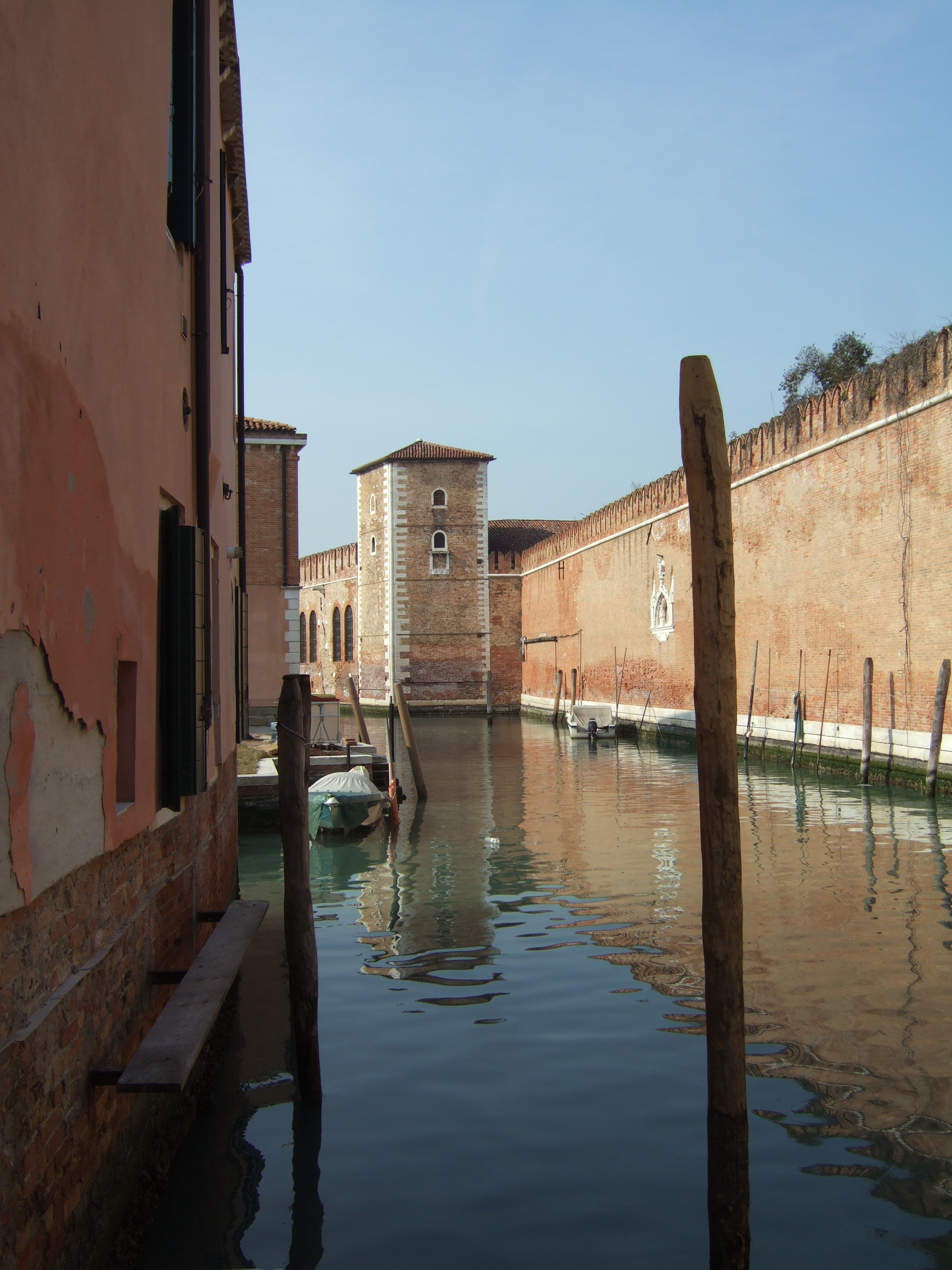 Rio delle Vergini, northern part, Arsenale at the right (Venice)